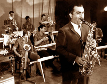 Tofig Akhmedov leader of the first Azerbaijani jazz orchestra